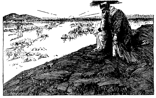 Book I of the Story of the World series. Focuses on the civilizations surrounding the Mediterranean Sea from the time of Abraham to the birth of Christ. Brief histories of the Ancient Israelites, Phoenicians, Egyptians, Scythians, Persians, Greeks, and Romans are given, concluding with the conquest of the entire Mediterranean by Rome. Important myths and legends that preceded recorded history are also related.